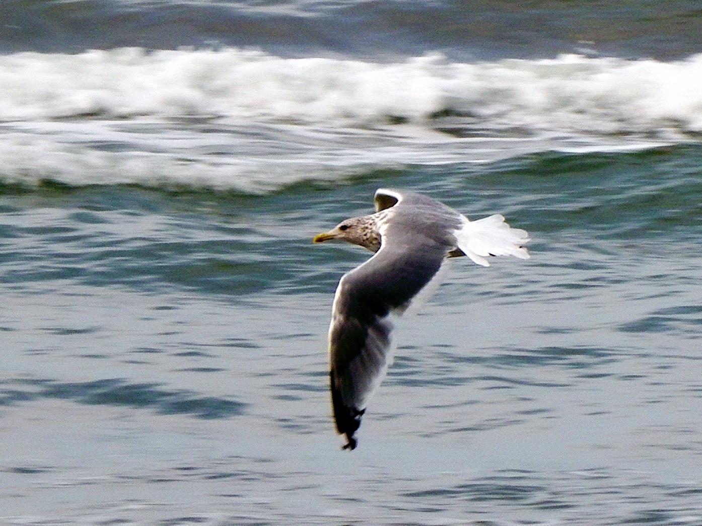 Vega Gull Larus vegae, winter plumage, Ishikawa Prefecture, Japan